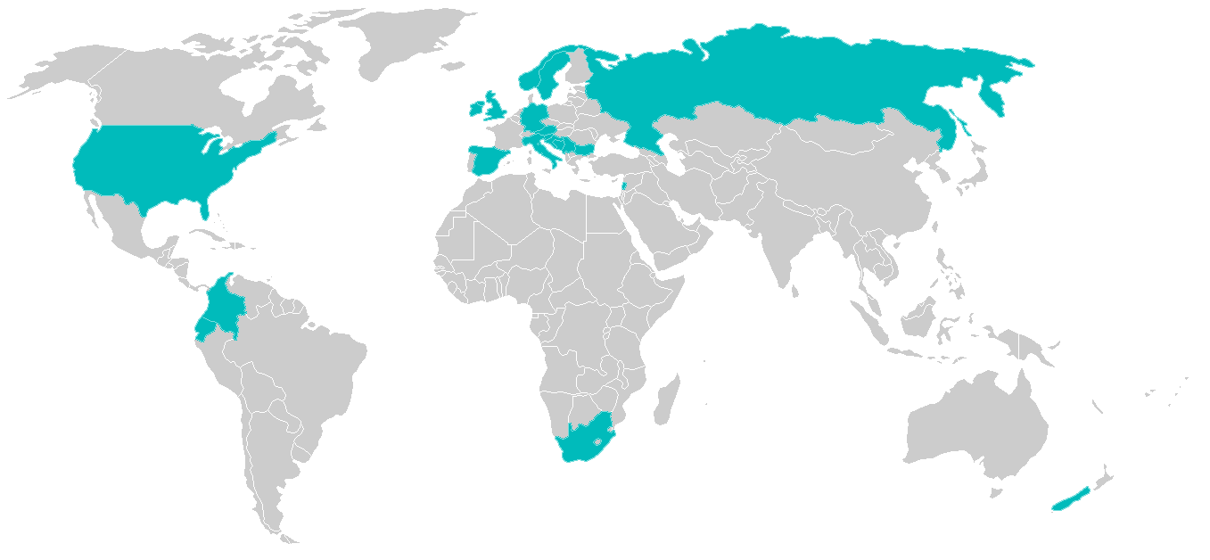 Distribution of the fish parasite Myxobolus cerebralis. Parasite discovered in Norway in 1971. Hastein, T. 1971. "The occurrence of whirling disease (Myxosomiasis) in Norway." Acta Veterinaria Scandinavica 12: 297–299.